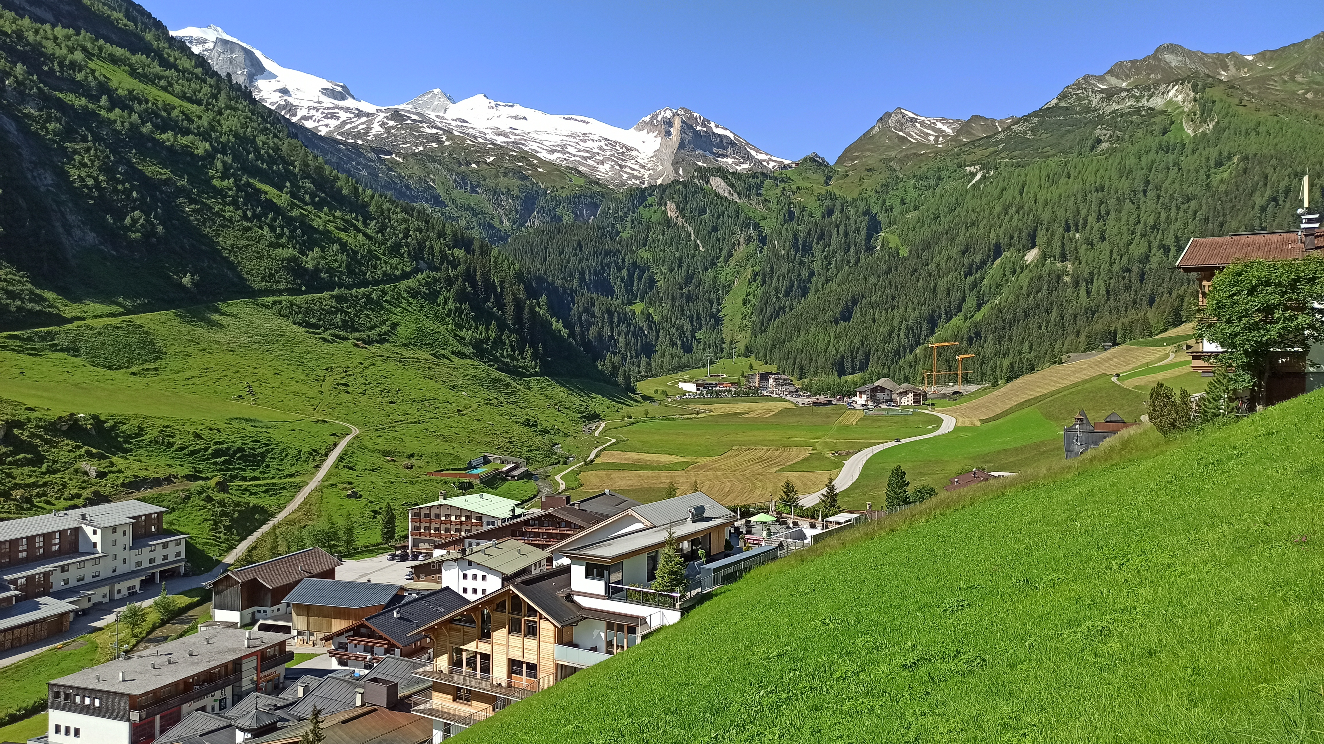 Village outlet of Hintertux, Austria